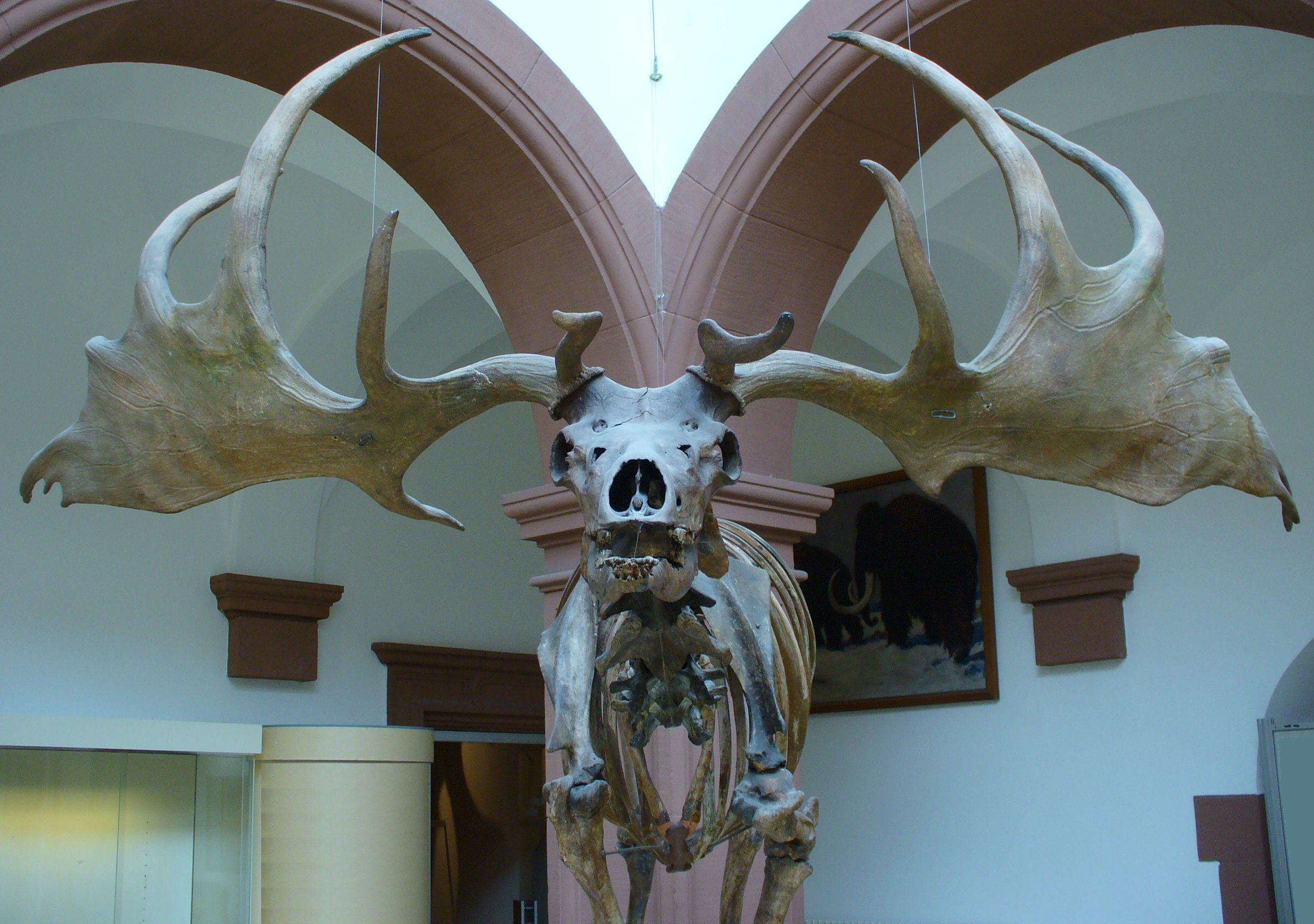 Irish elk (Megaloceros giganteus), skeleton (where to find / where is it located?)